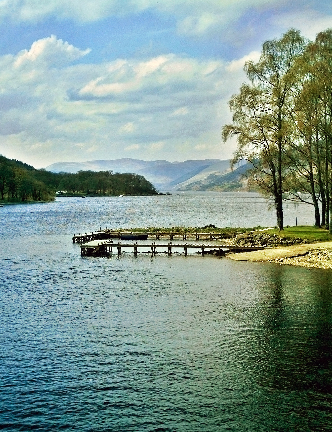 Loch Earn - Pertshire - Scotland. May 2006.